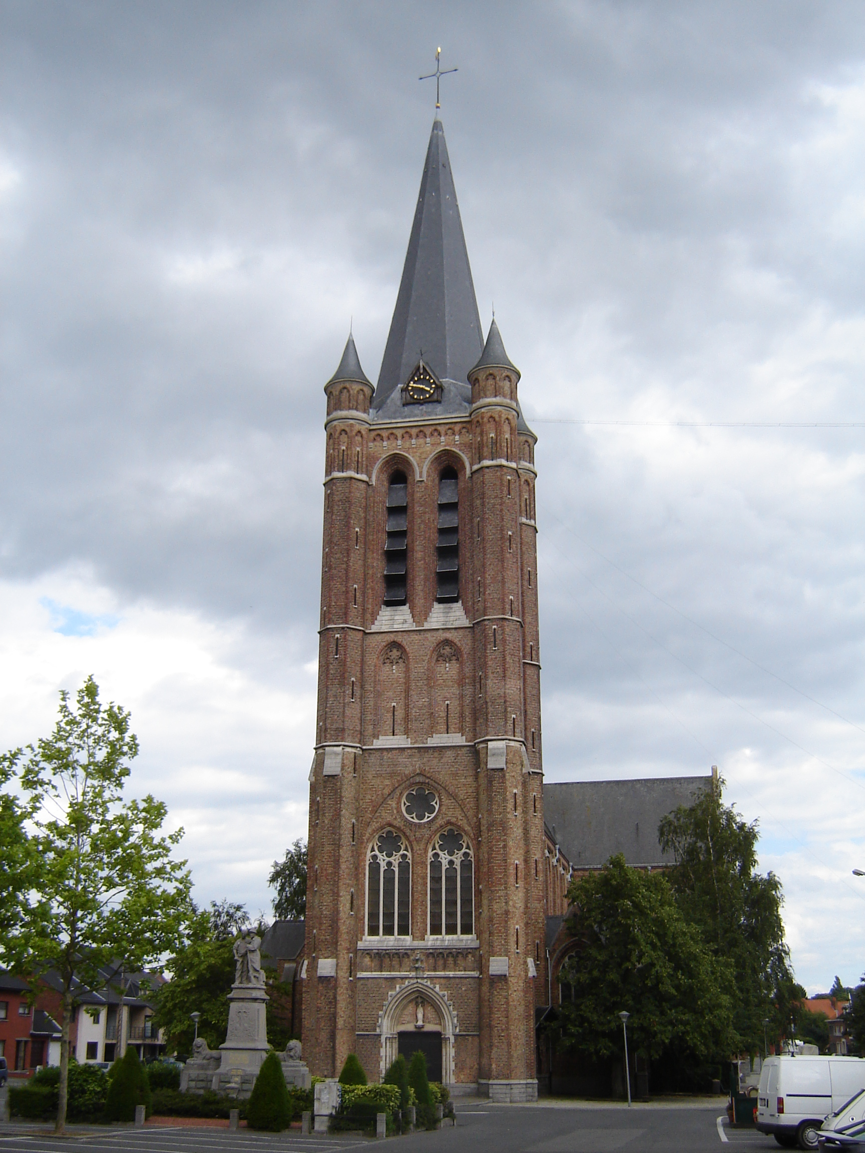 Church of Saint Léger in Dottignies, Mouscron, Hainaut, Belgium